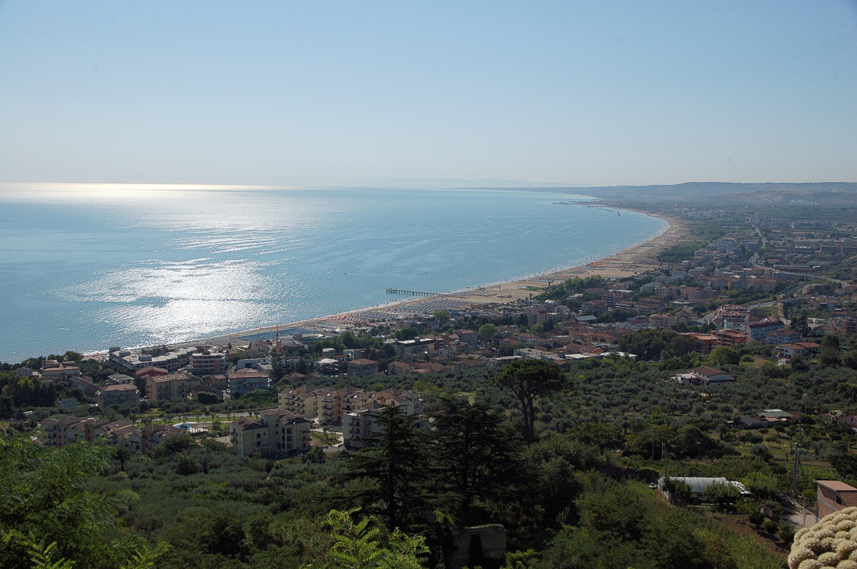 Vasto